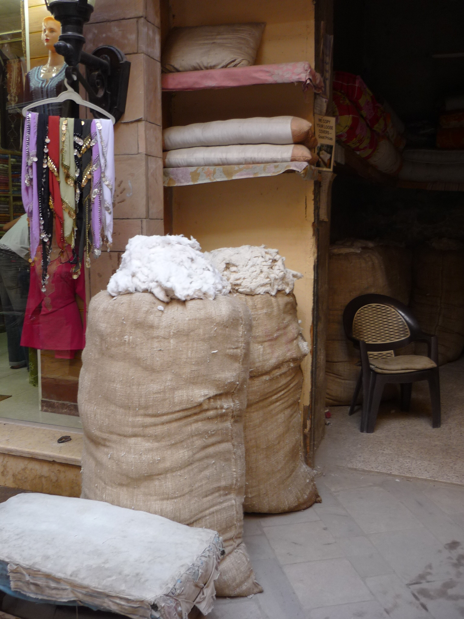 Cotton in Luxor bazar, Egypt